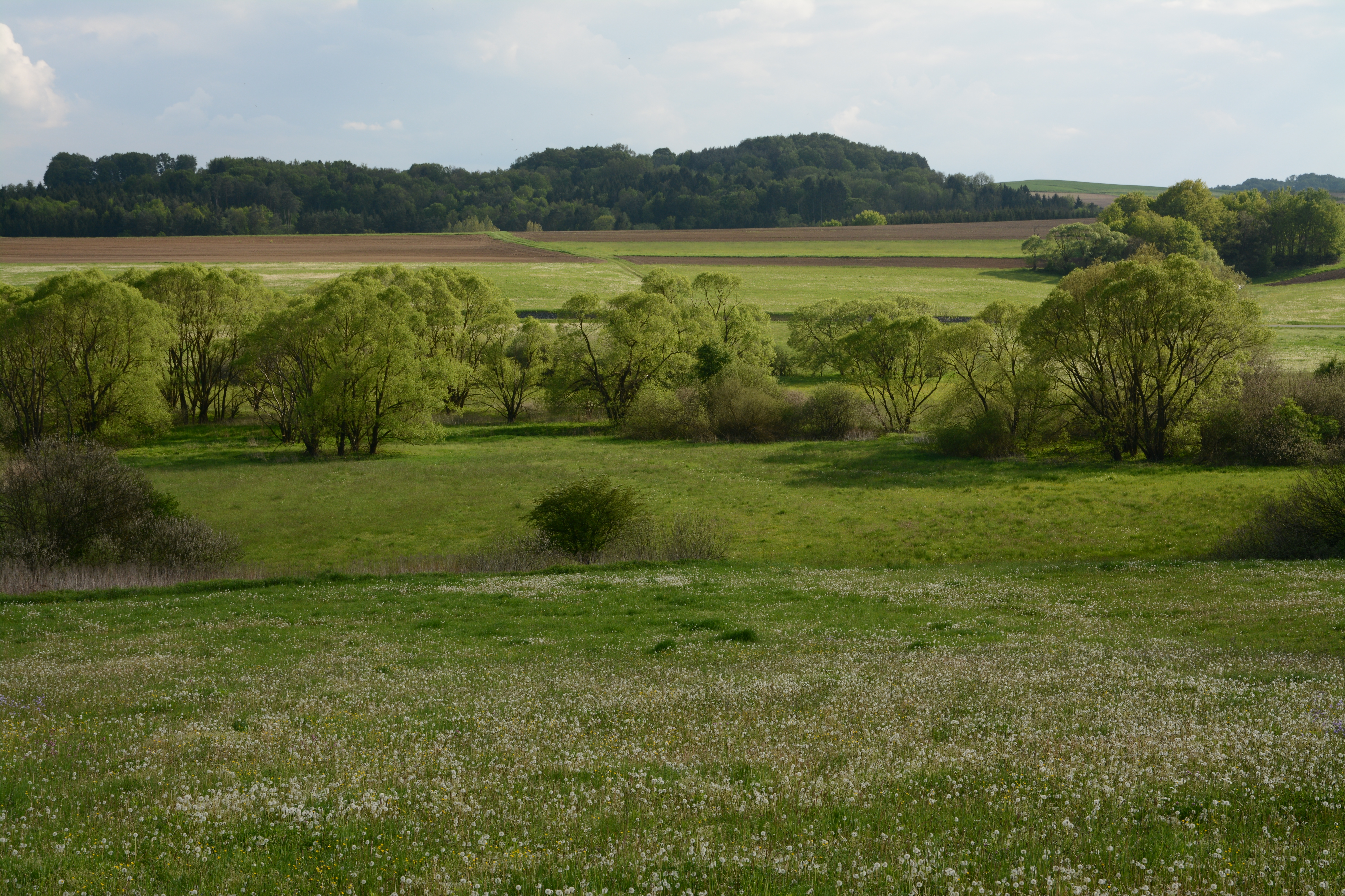 Rohr im Burgenland